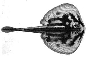 Illustration of Raja cruciata (=Urolophus cruciatus)